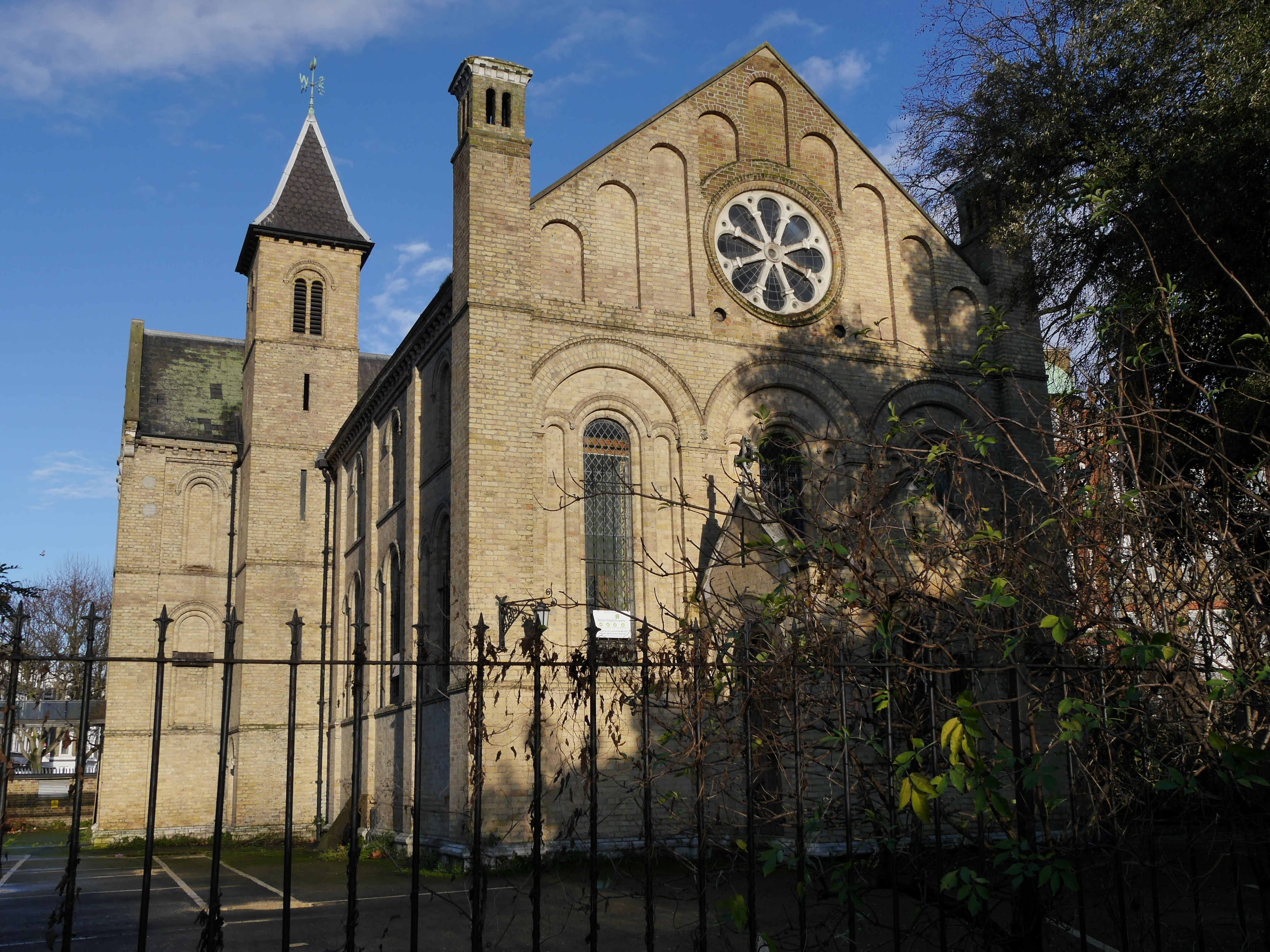 Chapel at College of St Mark and St John, Chelsea, London